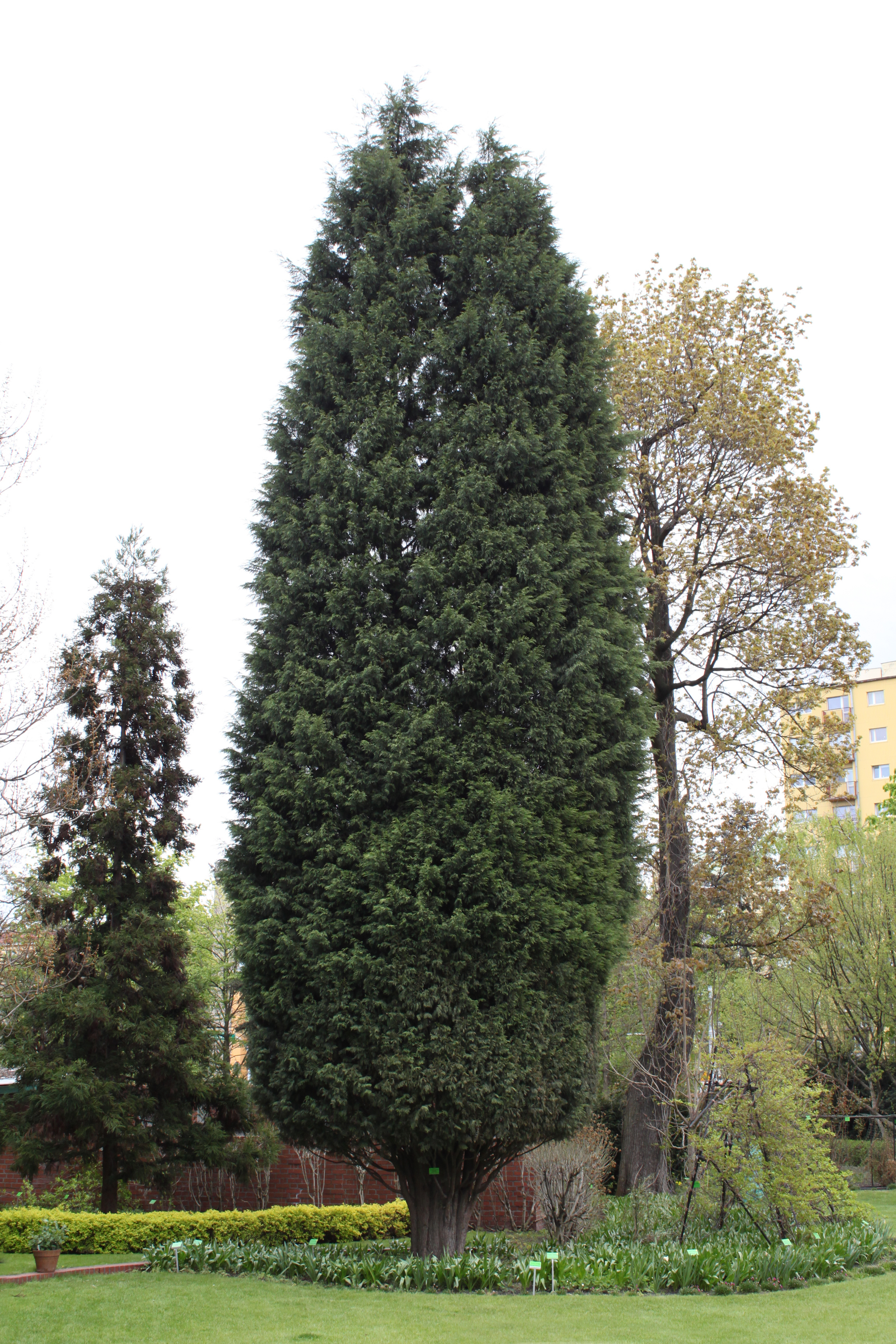 x Cupressocyparis leylandii 'Naylor's Blue' in Botanical Garden in Wrocław, Poland.